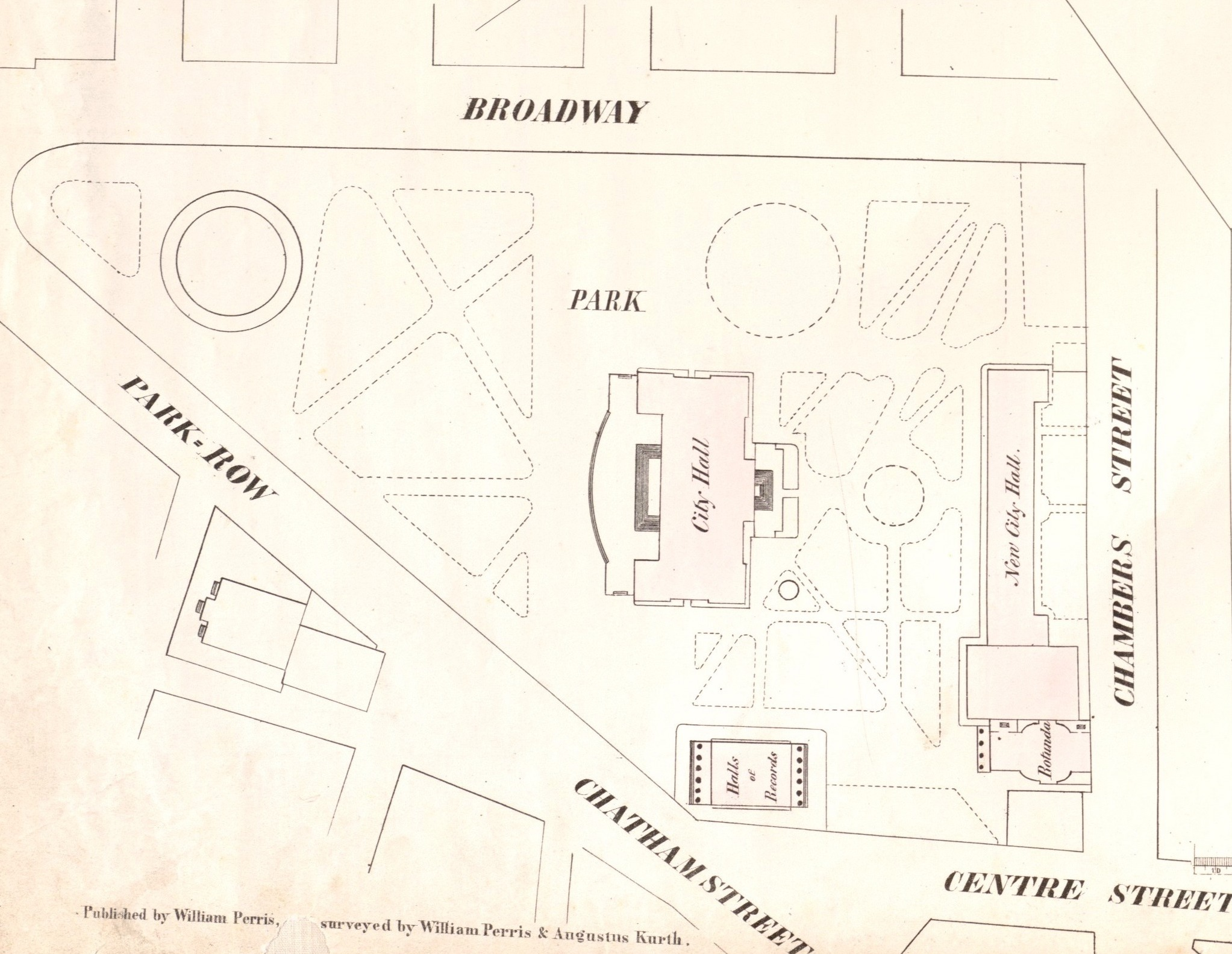 Map of City Hall Park in New York City with surrounding streets FOR KEY TO MAP SYMBOLS, CLICK HERE.